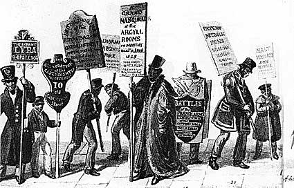 Human billboards in 19th century London, England.